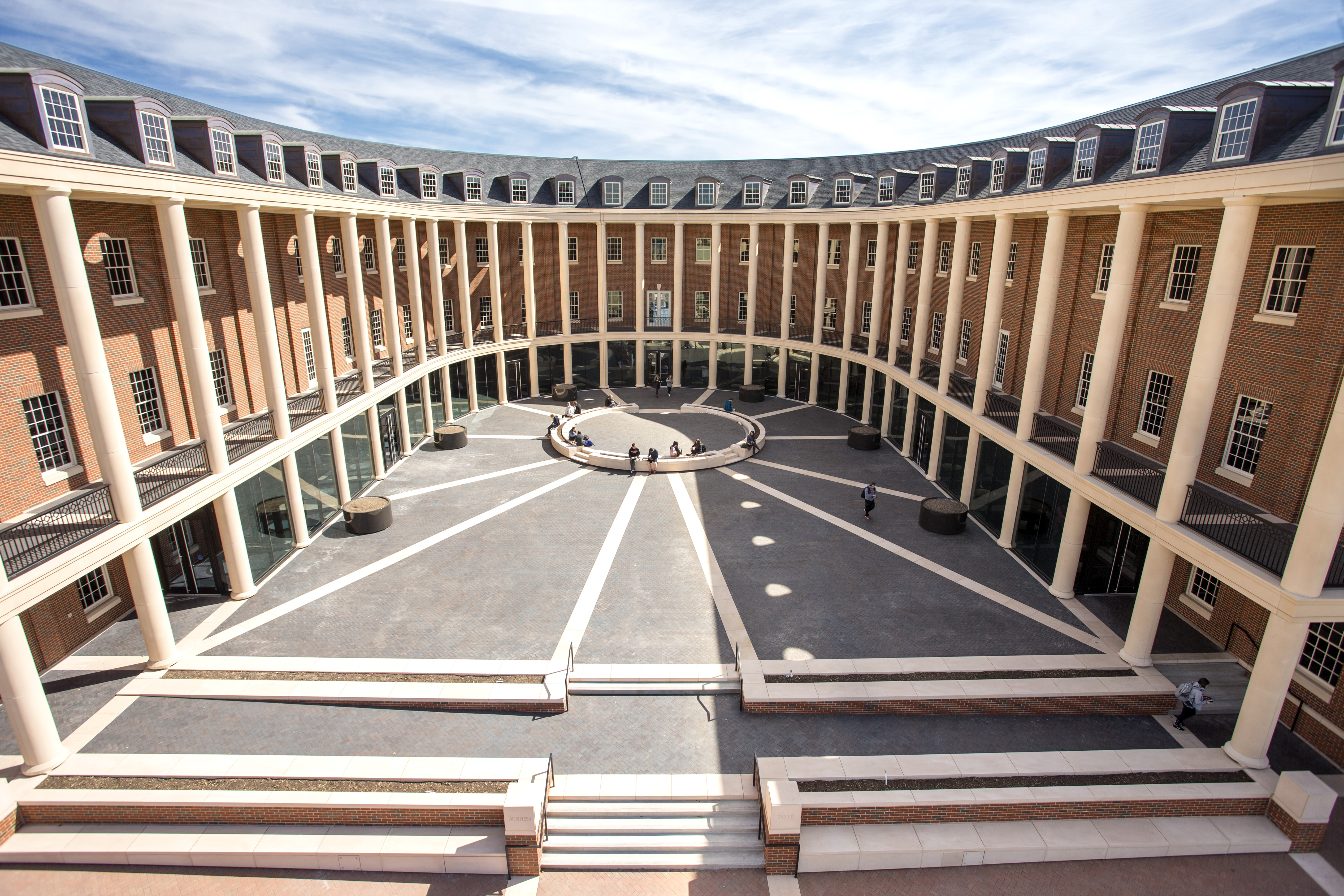 New business building